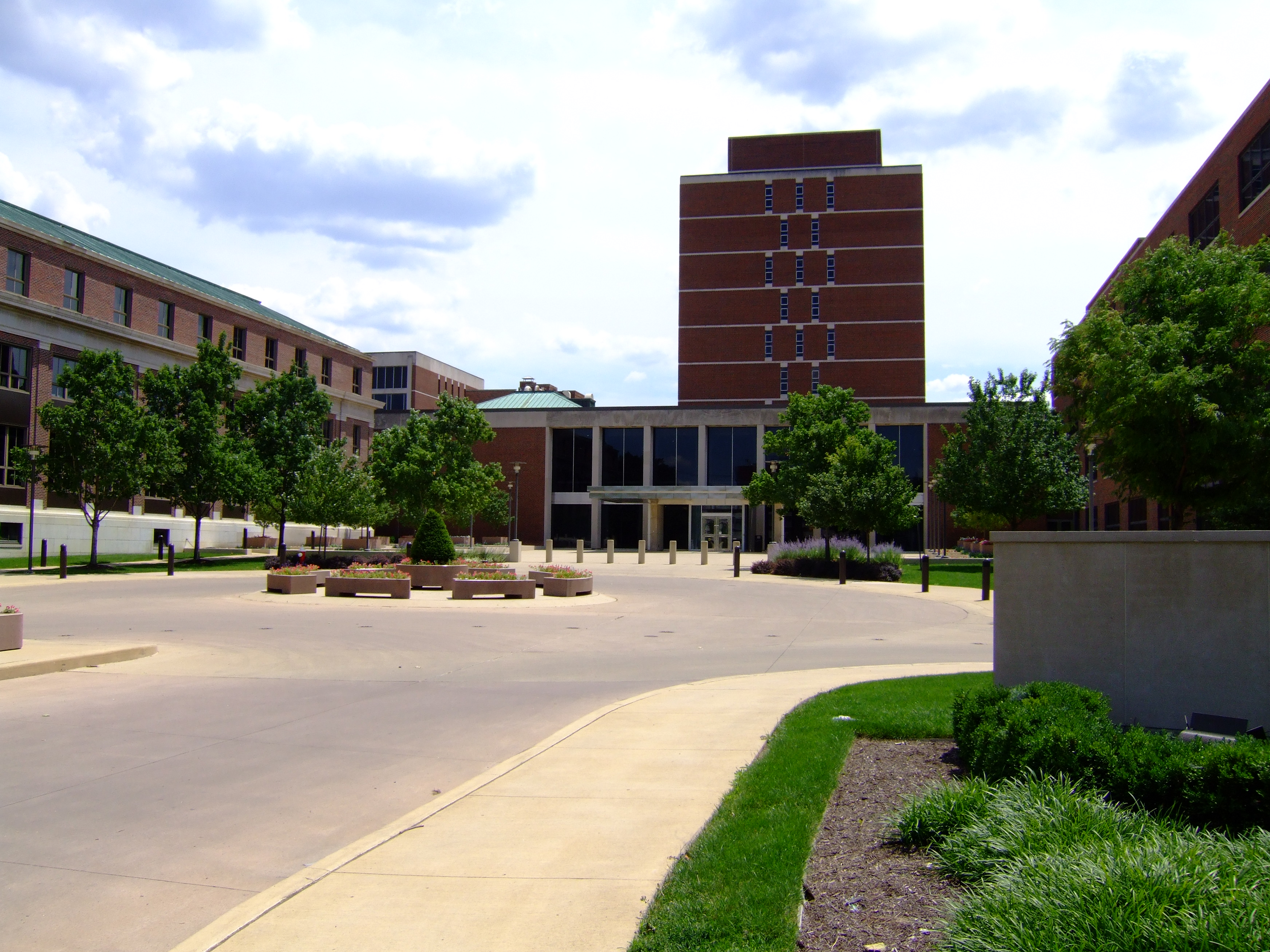 The main entrance to Battelle Memorial Institute in Columbus. Self made photo.